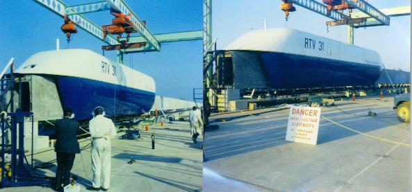 RTV 31 ready for a test run